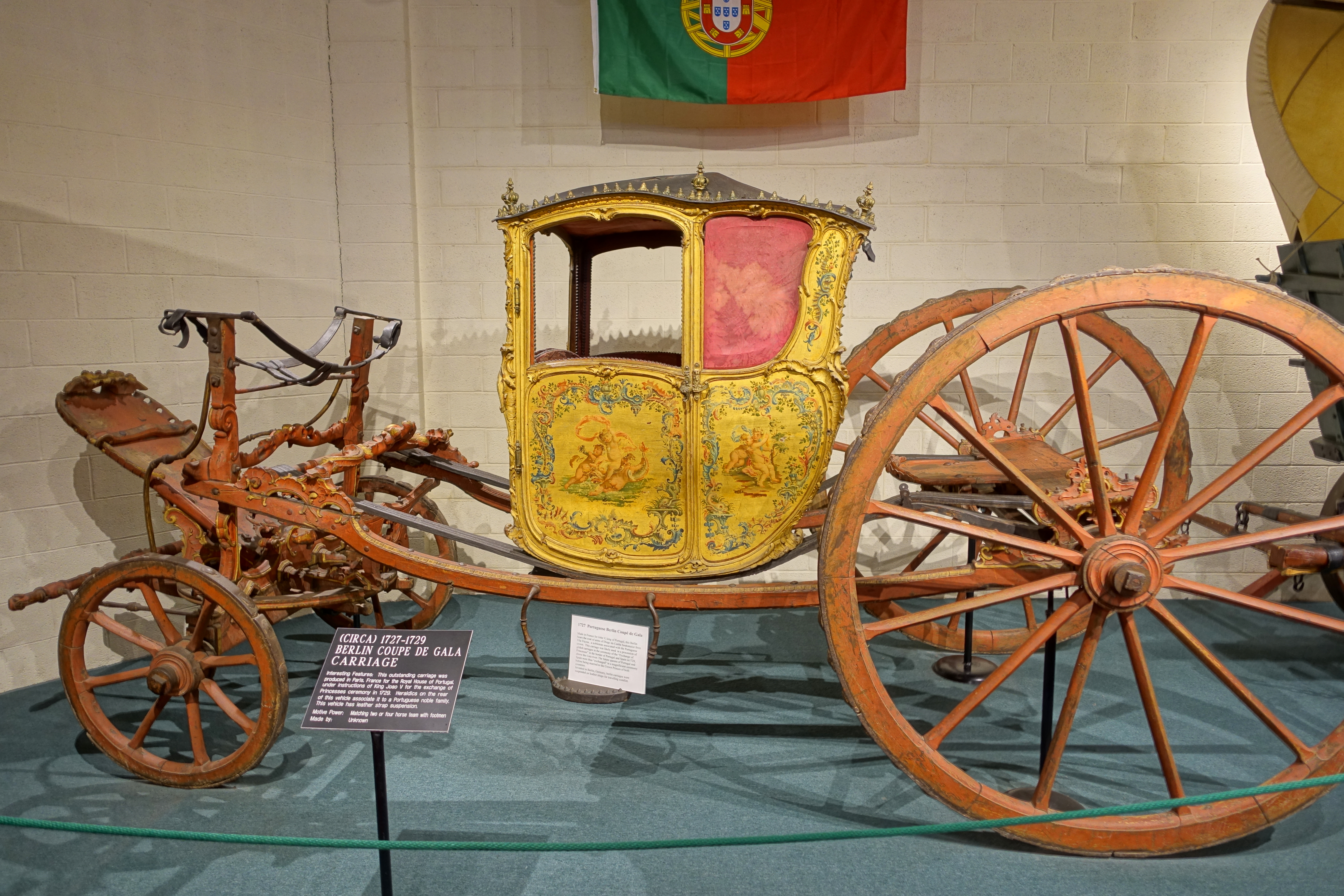 Exhibit in the in the Luray Caverns Car and Carriage Museum, Lurary, Virginia, USA. Berlin Coupe de Gala Carriage, built for the Royal House of Portugal for the Exchange of Princesses ceremony of 1729, Paris, c. 1727-1729. This "Exchange of Princesses" occurred on January 19, 1729, when Barbara of Portugal and Mariana Victoria of Spain were simultaneously married into each others' houses, at the River Caya between the two kingdoms.